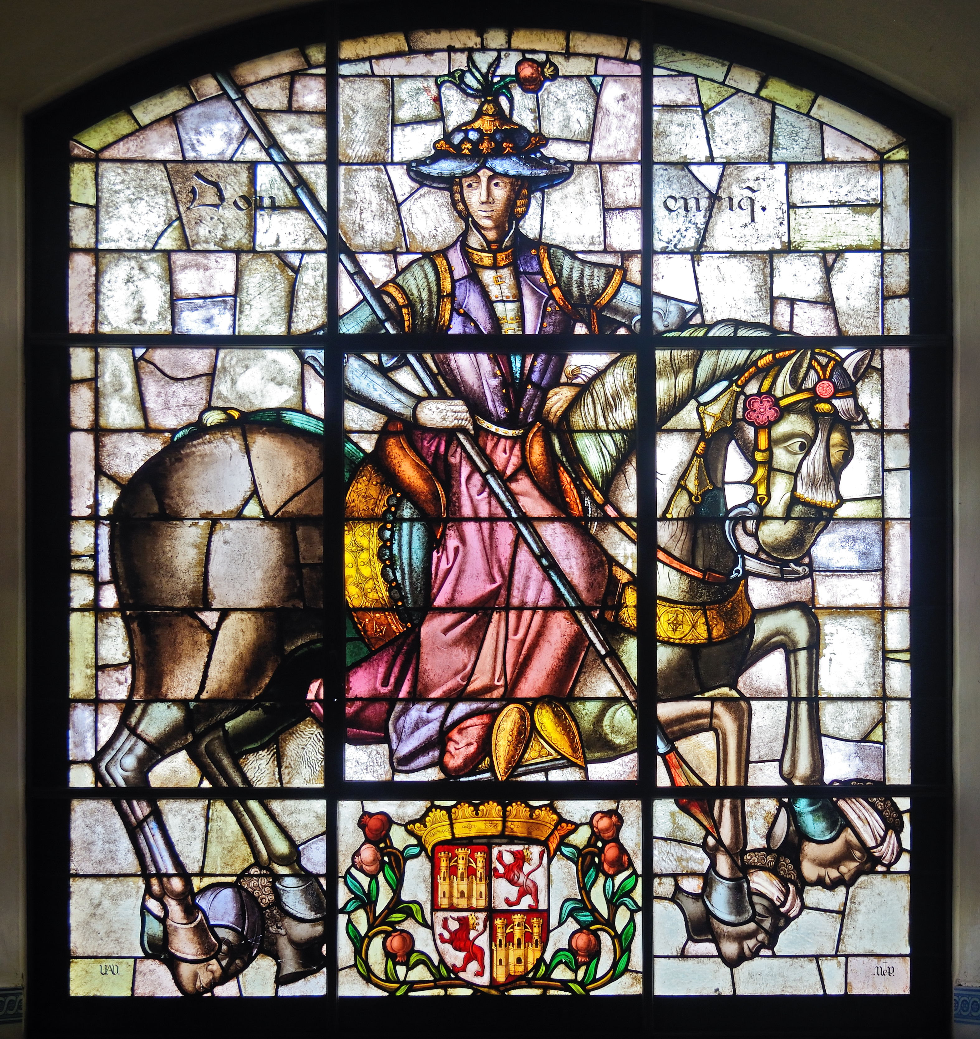 Stained glass "Don Enriq" in the Alcázar. Segovia, Spain. It depicts King Henry IV of Castile.